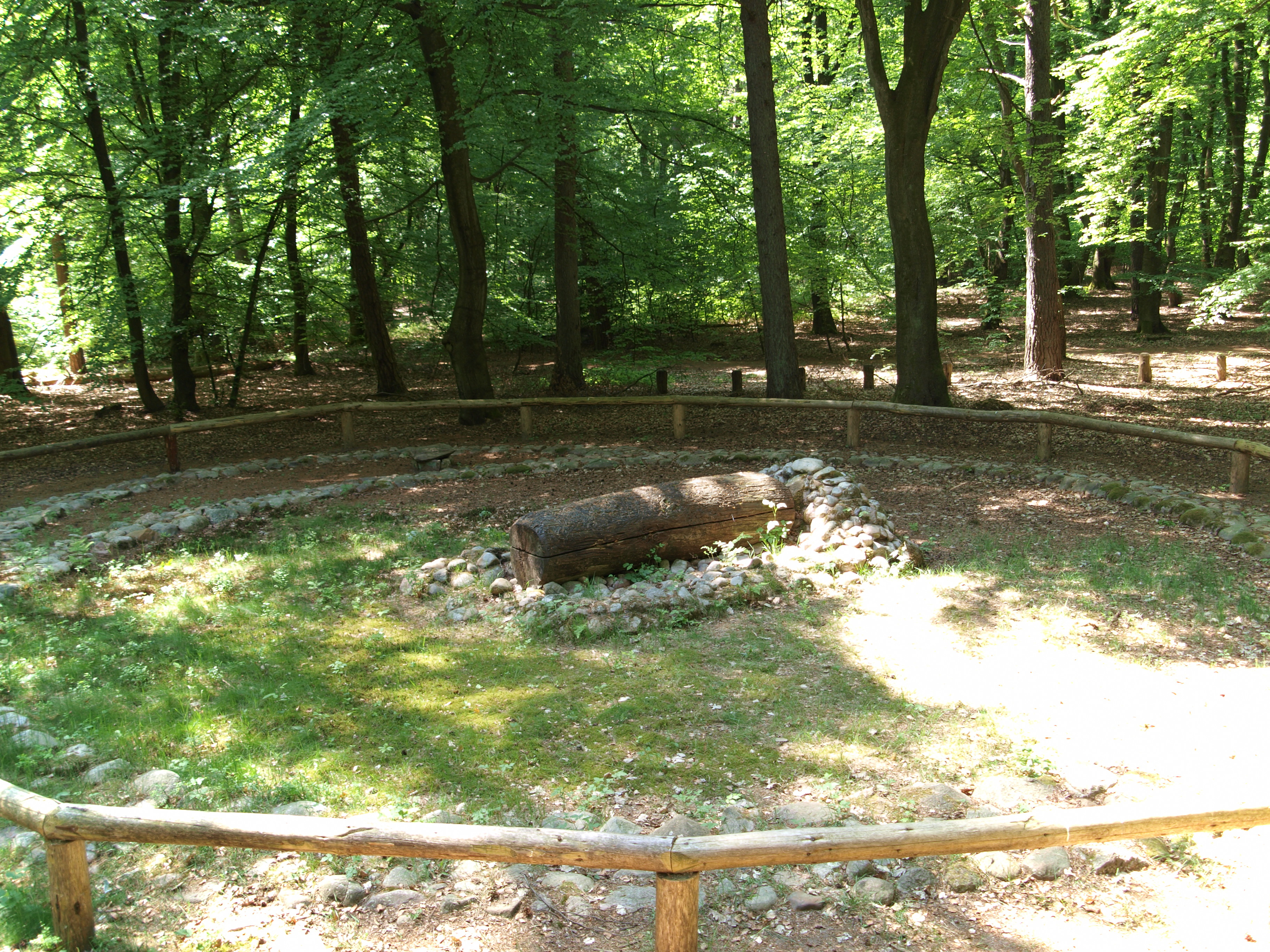 Archaeologic scenic route at Fischbeker Heide, station 8. Reconstructed trunk coffin burial of the middle Bronze Age without mounted tumulus. At the background is an a younger burial attached to the older existing tumulus. Reconstructed Archaeological useum Hamburg | Helms-Museum, Hamburg-Harburg, Germany.